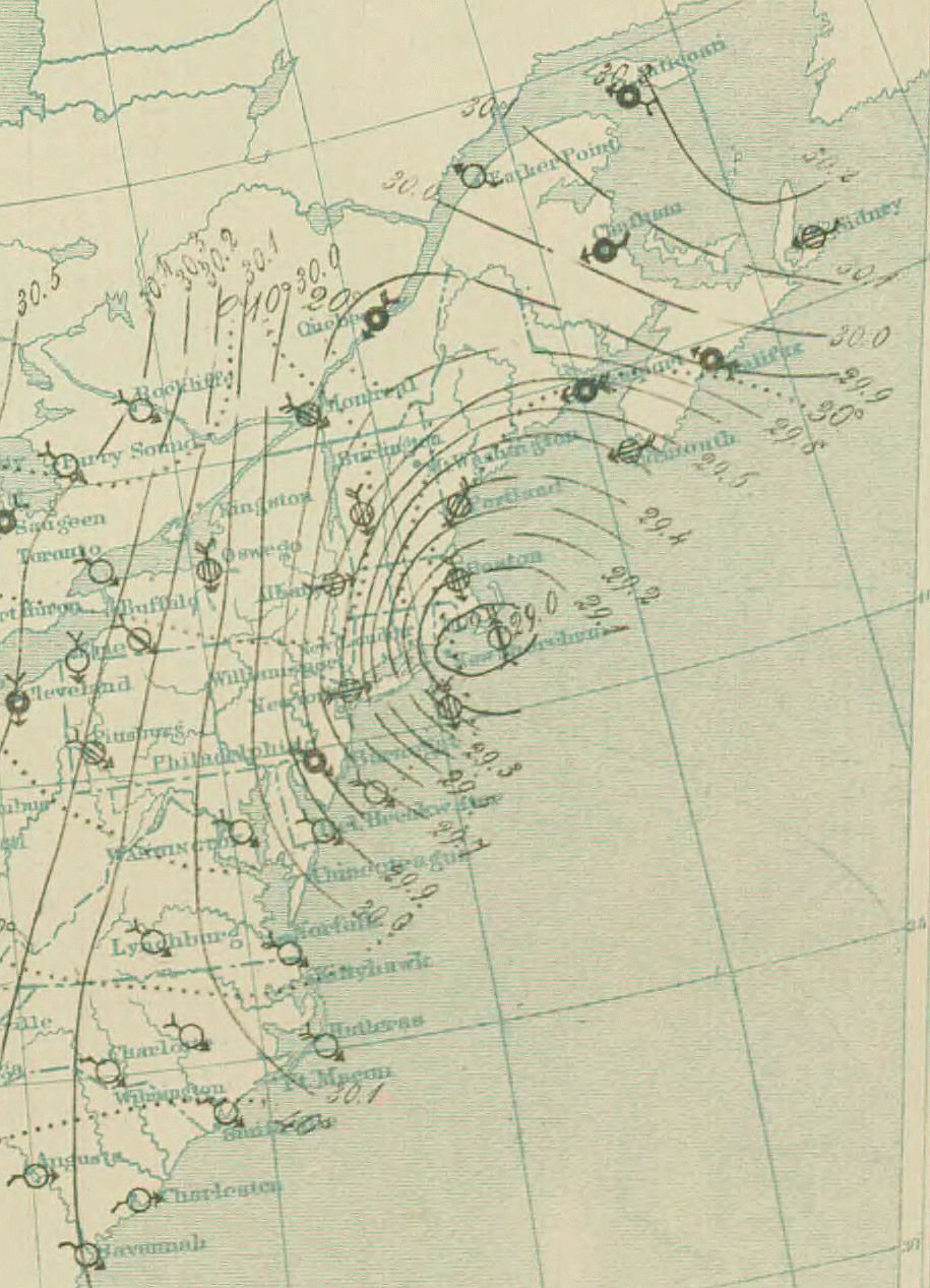 Image of Great Blizzard of 1888 from the NOAA library on page 3